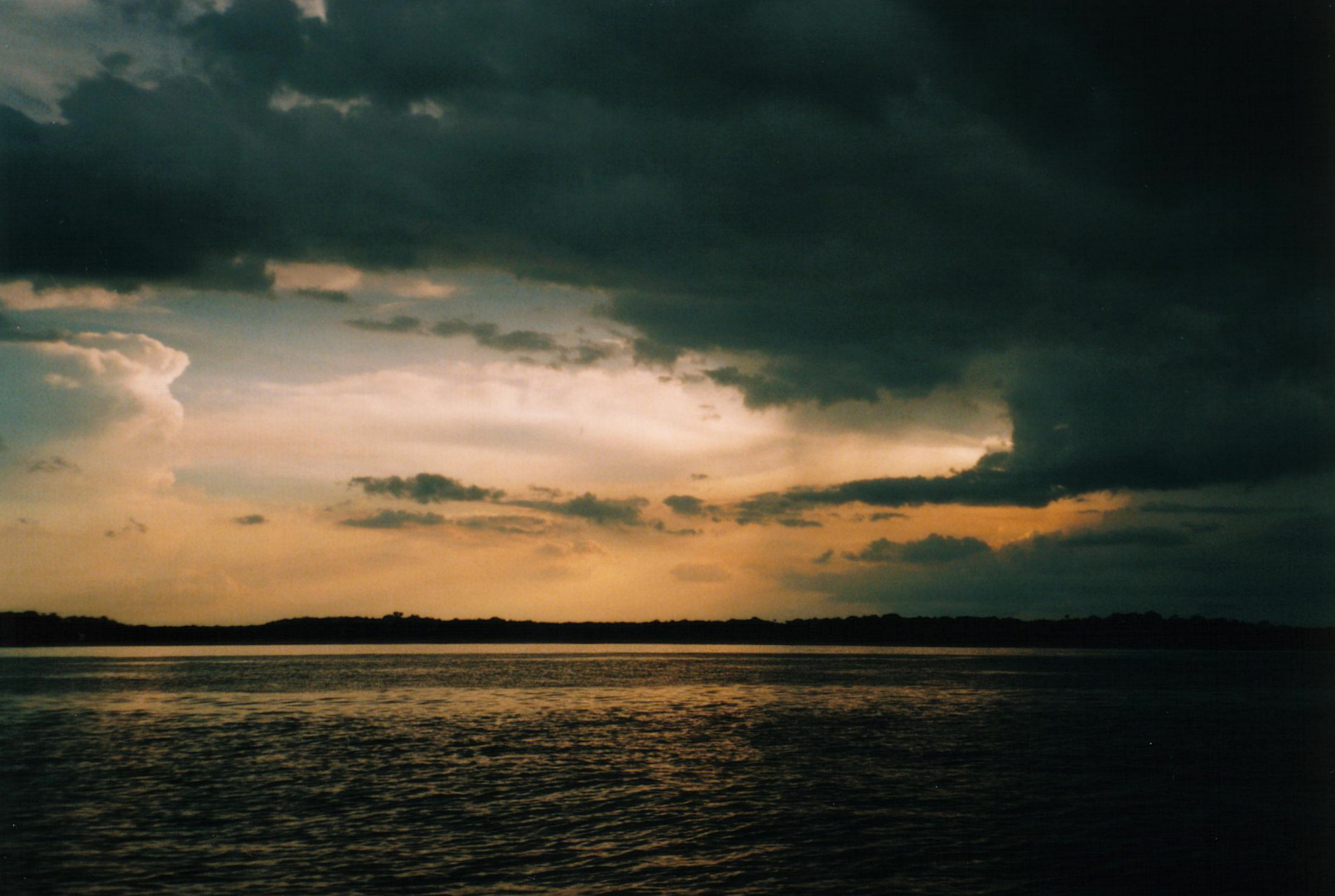 Sunset on the Rio Negro, Brazil